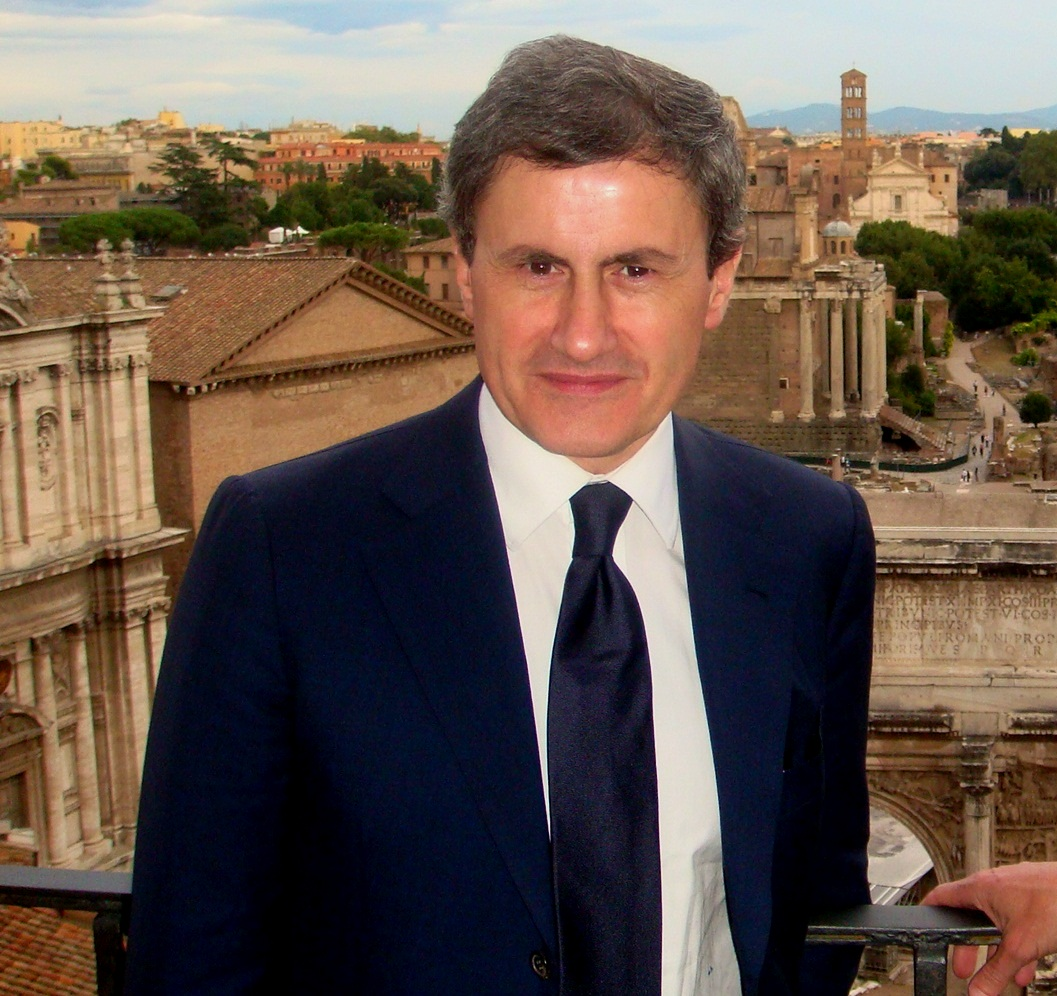 Mayor Gianni Alemanno portrayed in a view over the monuments of ancient Rome